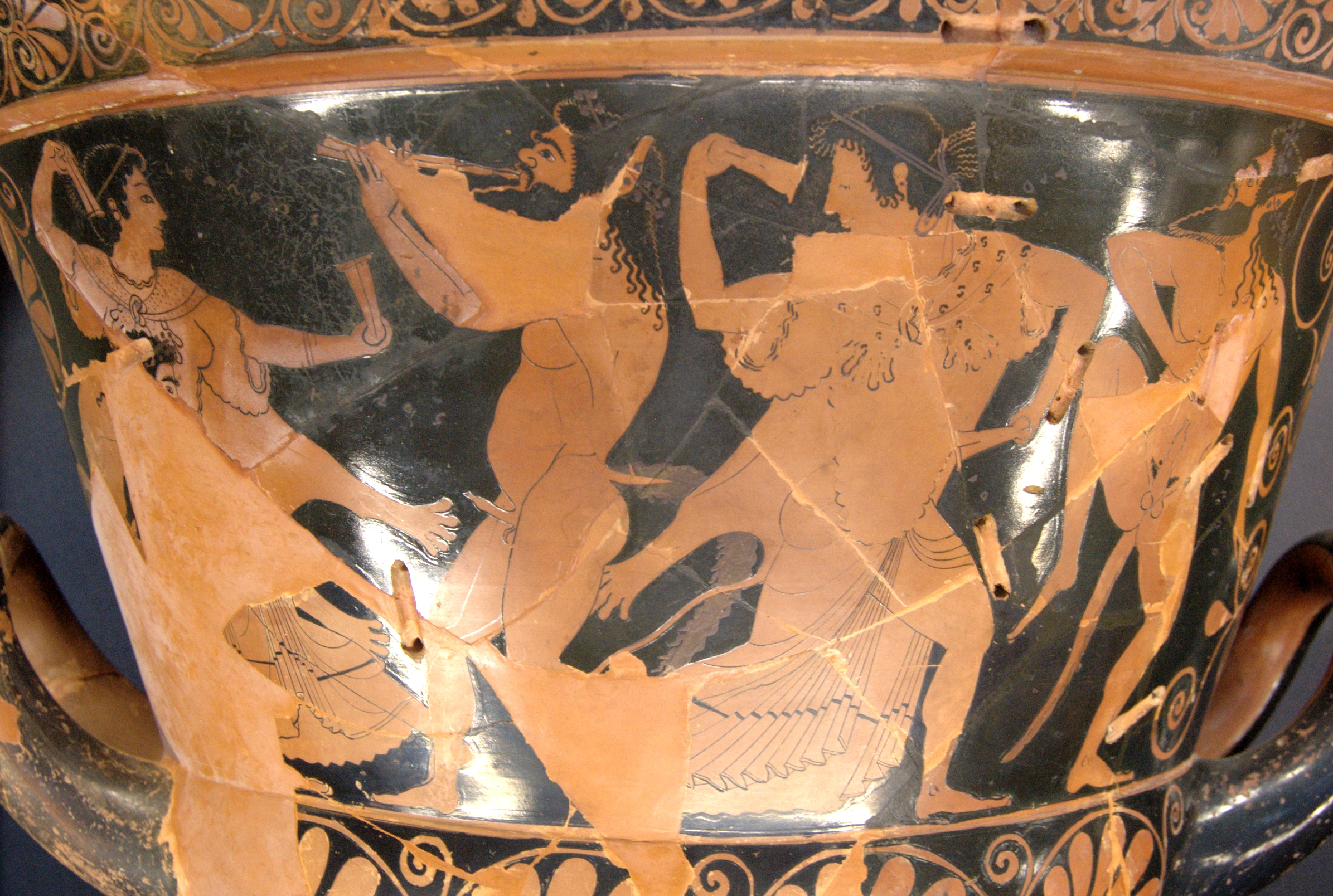 Dionysos and his thiasos. Side A from an Attic red-figure krater, 510–500 BC.